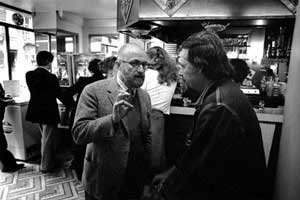 Pierre Alechinsky (left) and Peter Bramsen (right)